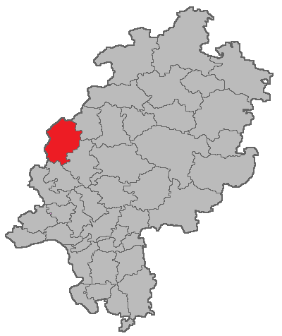 Map of the district court Dillenburg in Hesse